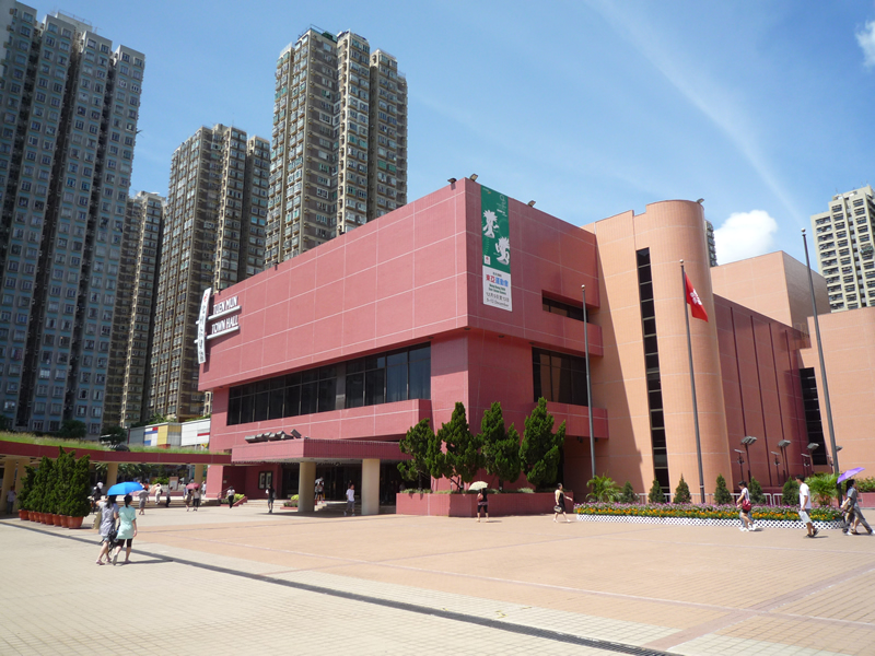 Tuen Mun Cultural Square with Town Hall